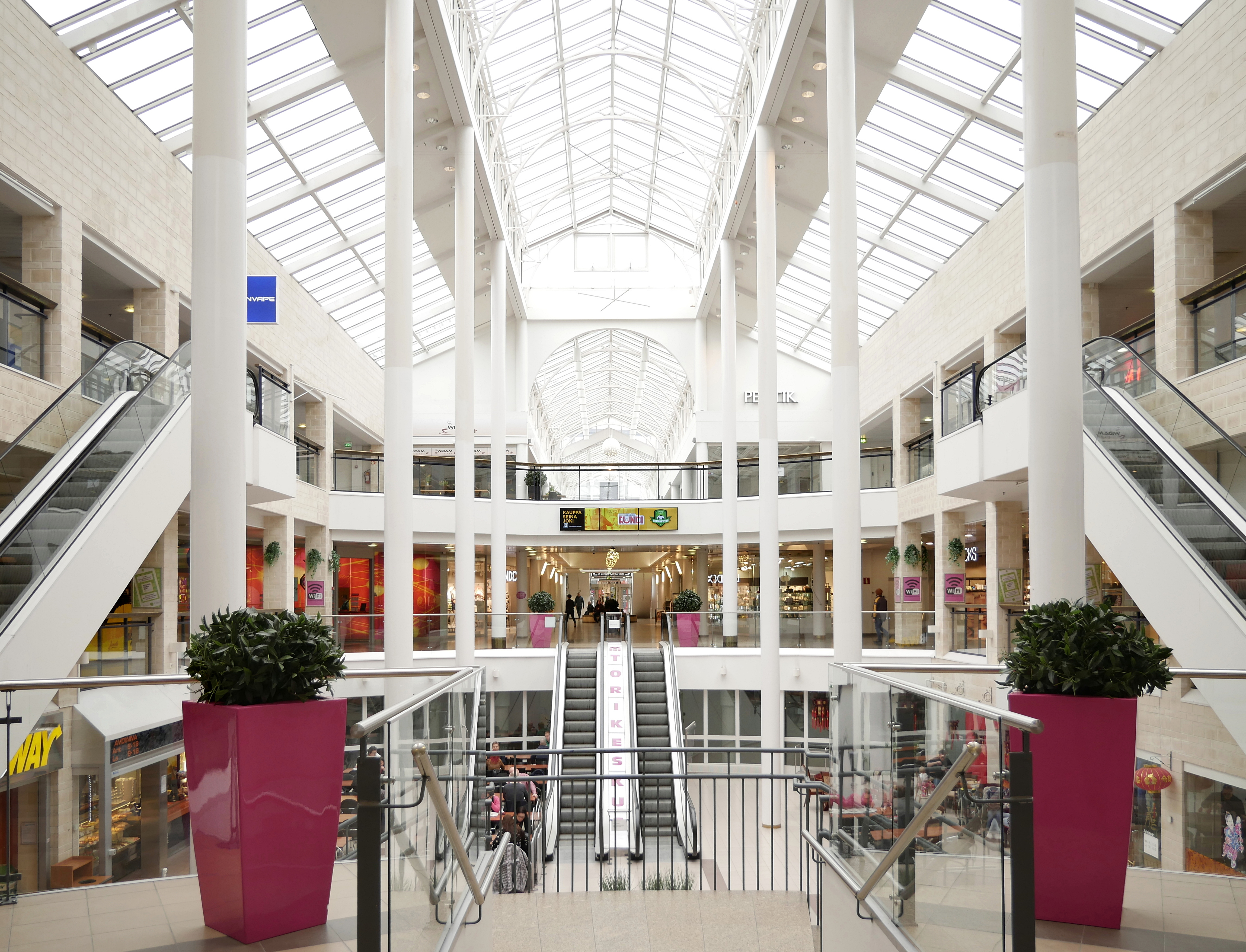 Interior of Torikeskus shopping mall.